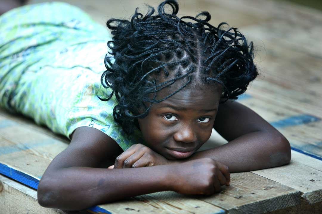 Abidjan, Ivory Coast